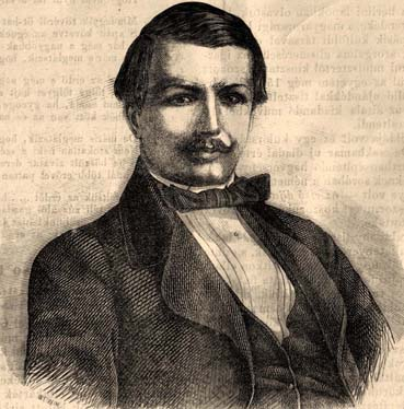 Portrait of Antal Szkalnitzky